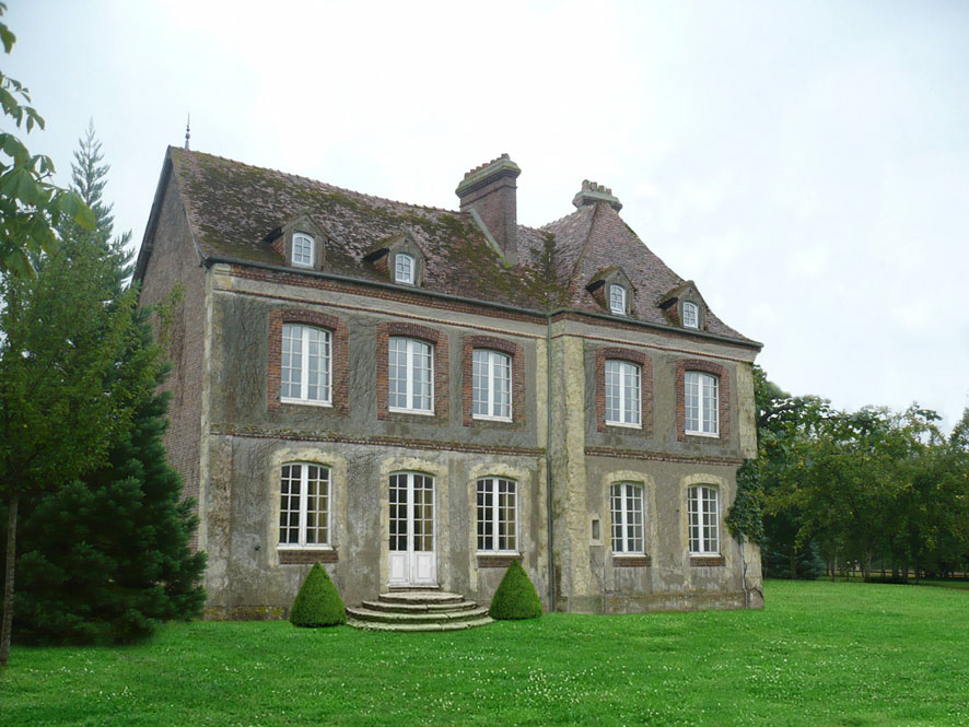 Rouil manor